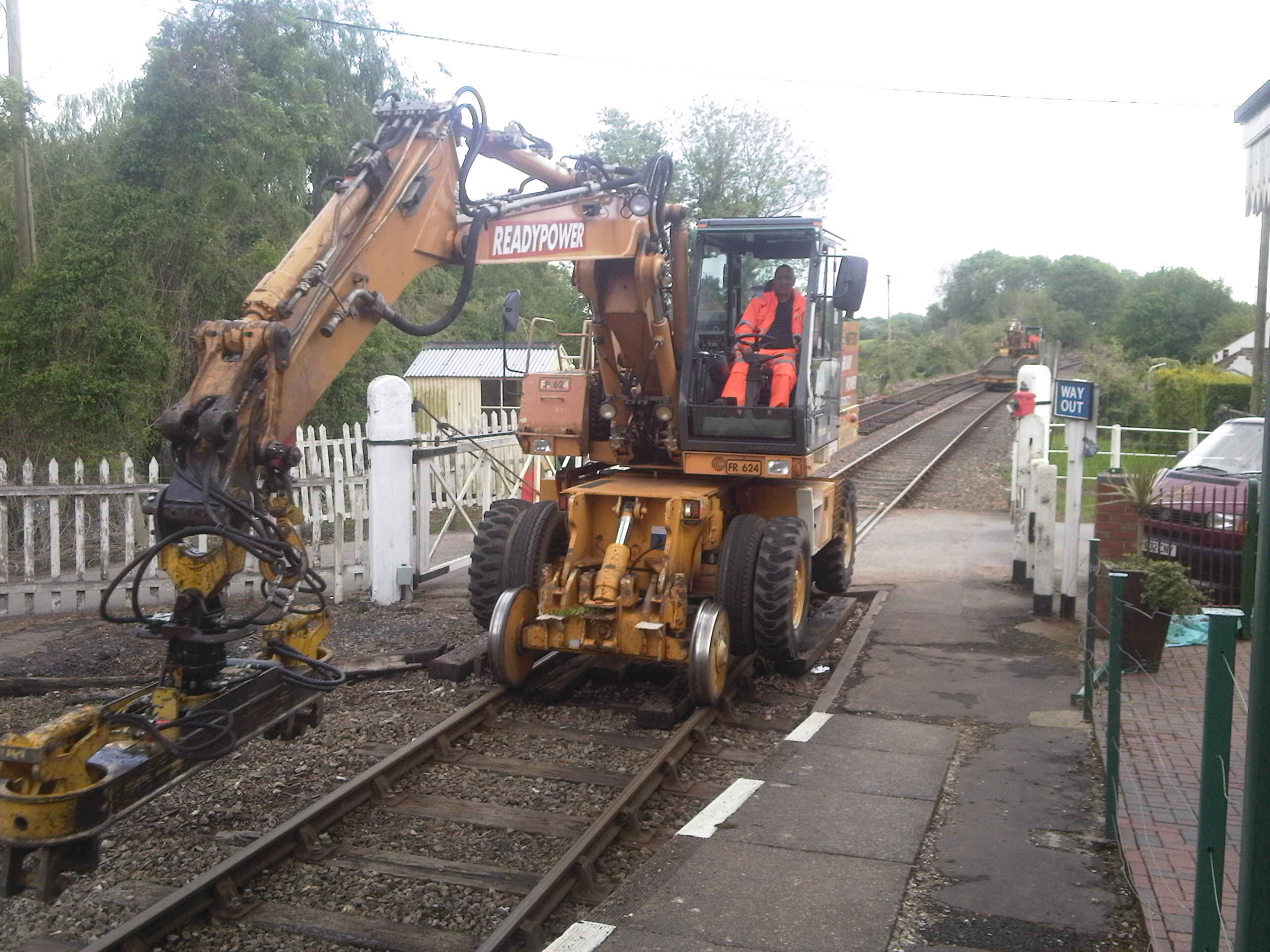 Bridgen's contractors laying track panels at Thuxton on the Mid-Norfolk Railway